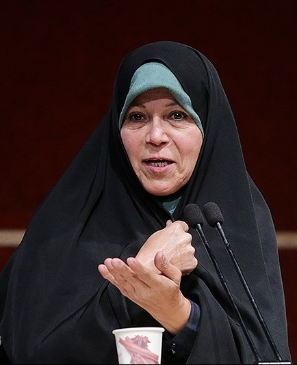 Faezeh Hashemi in Will of the Iranian Nation Party's annual congress